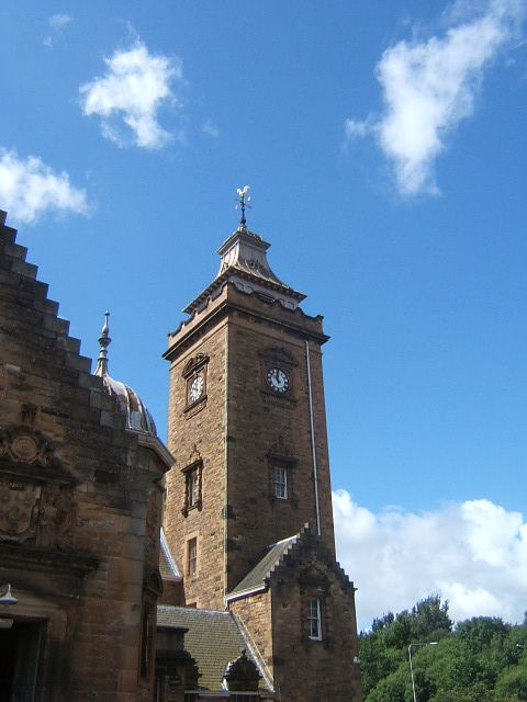 Pollokshaws Burgh Hall